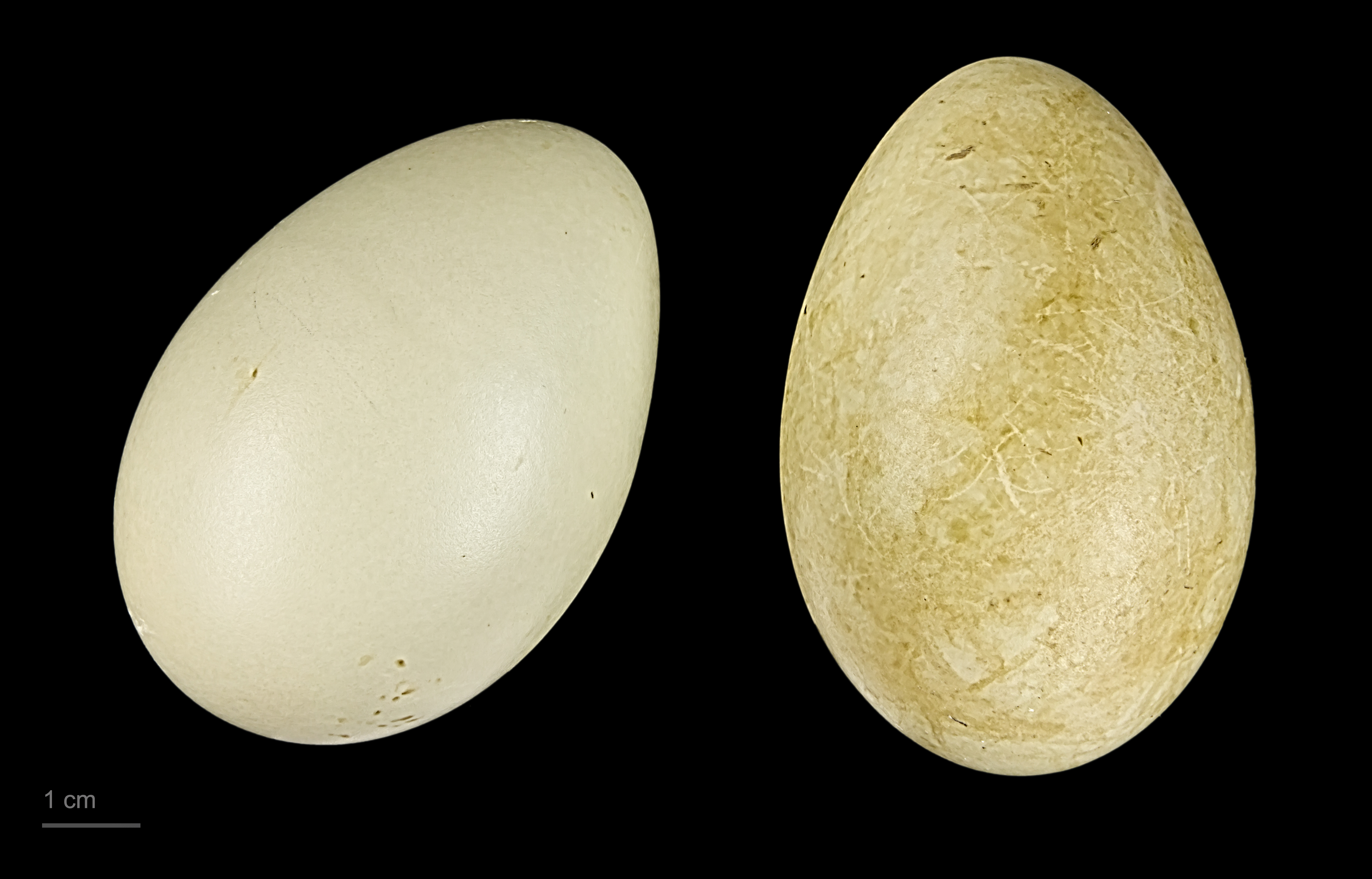 Eggs of king eider Two specimens of the same spawn ; collection of Jacques Perrin de Brichambaut.